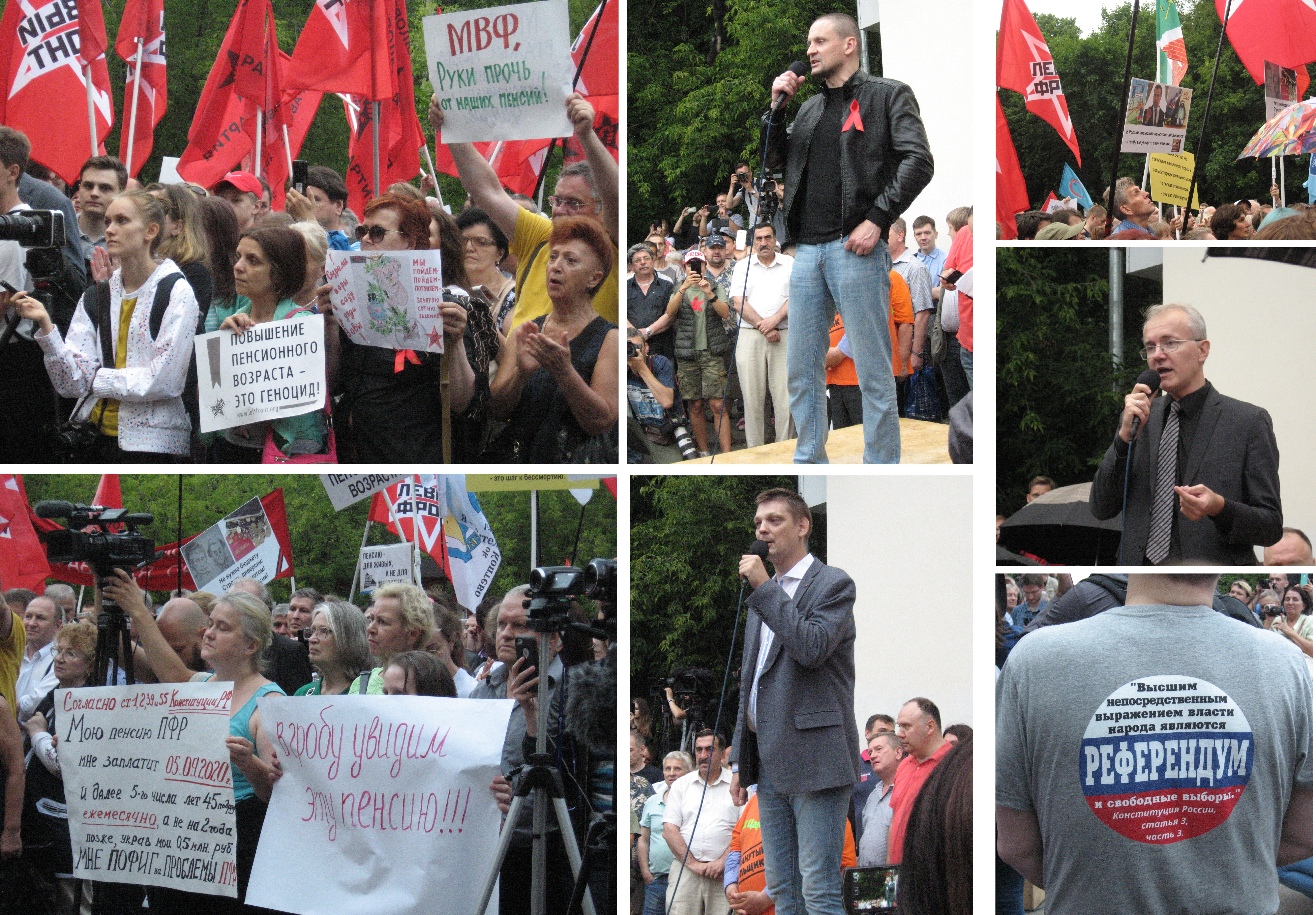 Meeting in Hyde Park (Moscow, RF) July 18, 2018; protest against the government's attempt to increase the retirement age.